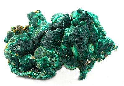 Malachite Locality: Rum Jungle, Northern Territory, Australia Size: cabinet, 10.5 x 6.5 x 3.2 cm Malachite Multi-colored botryoids highlight this extremely aesthetic specimen. Spheres, 2.5 cm across, exhibit light and dark green swirls. There is a satin luster which adds to the quality of the specimen. OLD, CLASSIC, NOW RARE MATERIAL